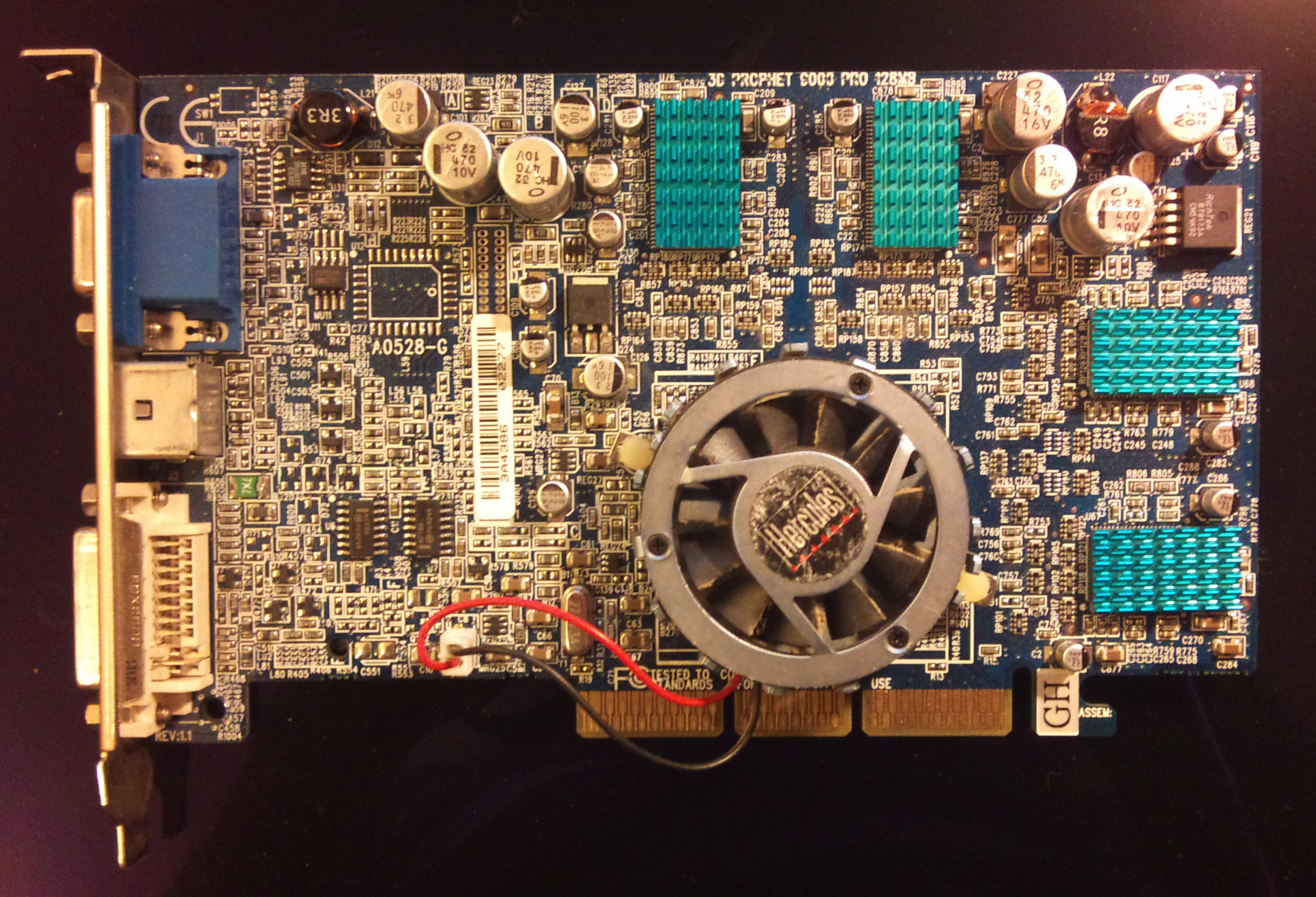 Hercules 3D Prophet 9000 Pro with 128Mb of DDR-RAM, based on the ATi RV250 GPU.